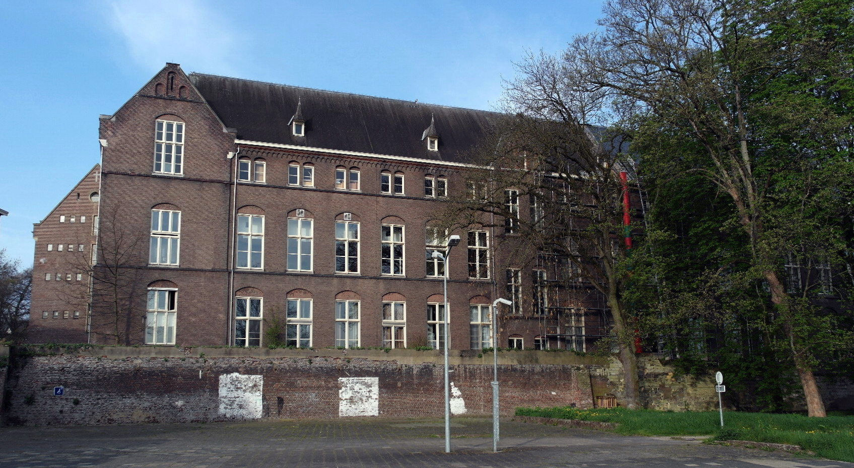 Maastricht, the Netherlands. View from the garden of Hof van Tilly of the "new monastery" of Beyart, home to the Roman Catholic congregation of the Brothers of Maastricht.